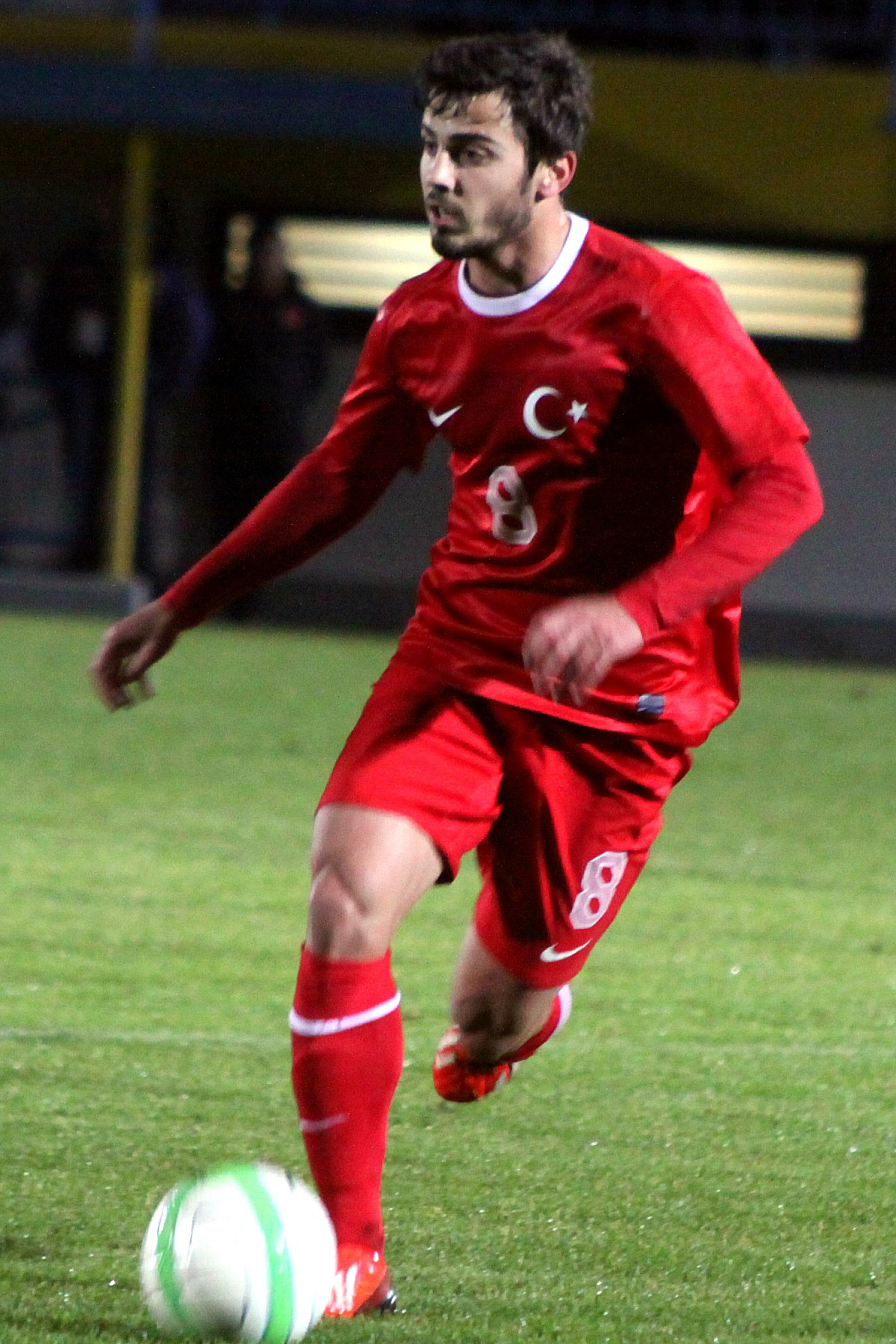 Friendly-match Austria U-21 vs. Turkey U-21 (2:0) on 2013-11-14 in Wiener Neudorf. – The photo shows Eray Ataseven (Manisaspor, Turkey).